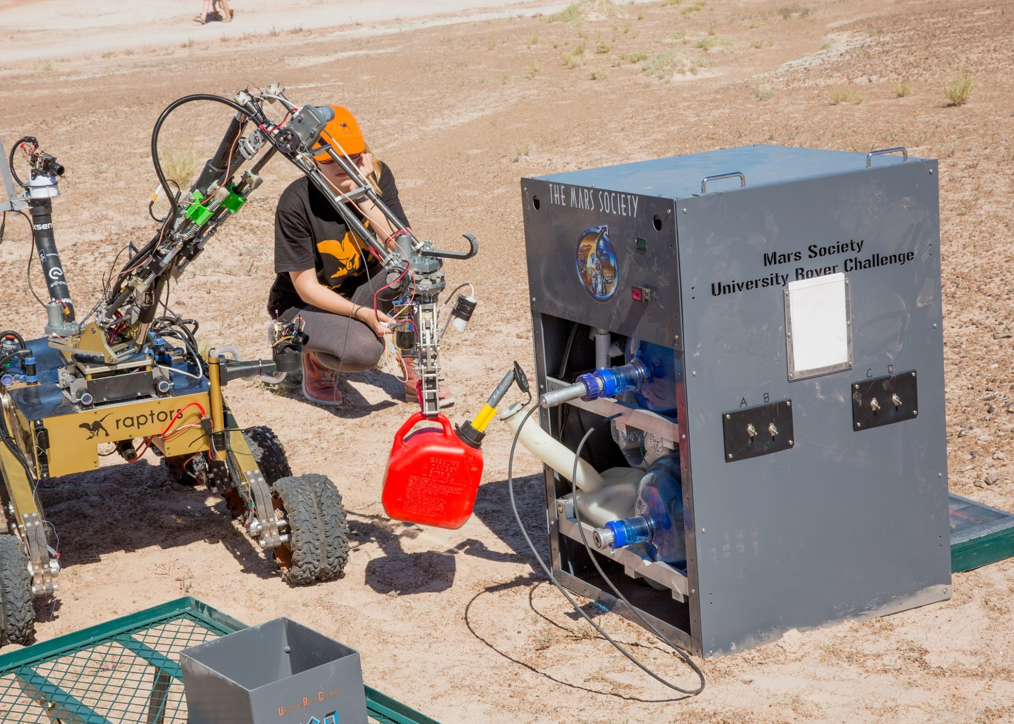 Rover pours fuel into a generator in Mars Society University Rover Challenge